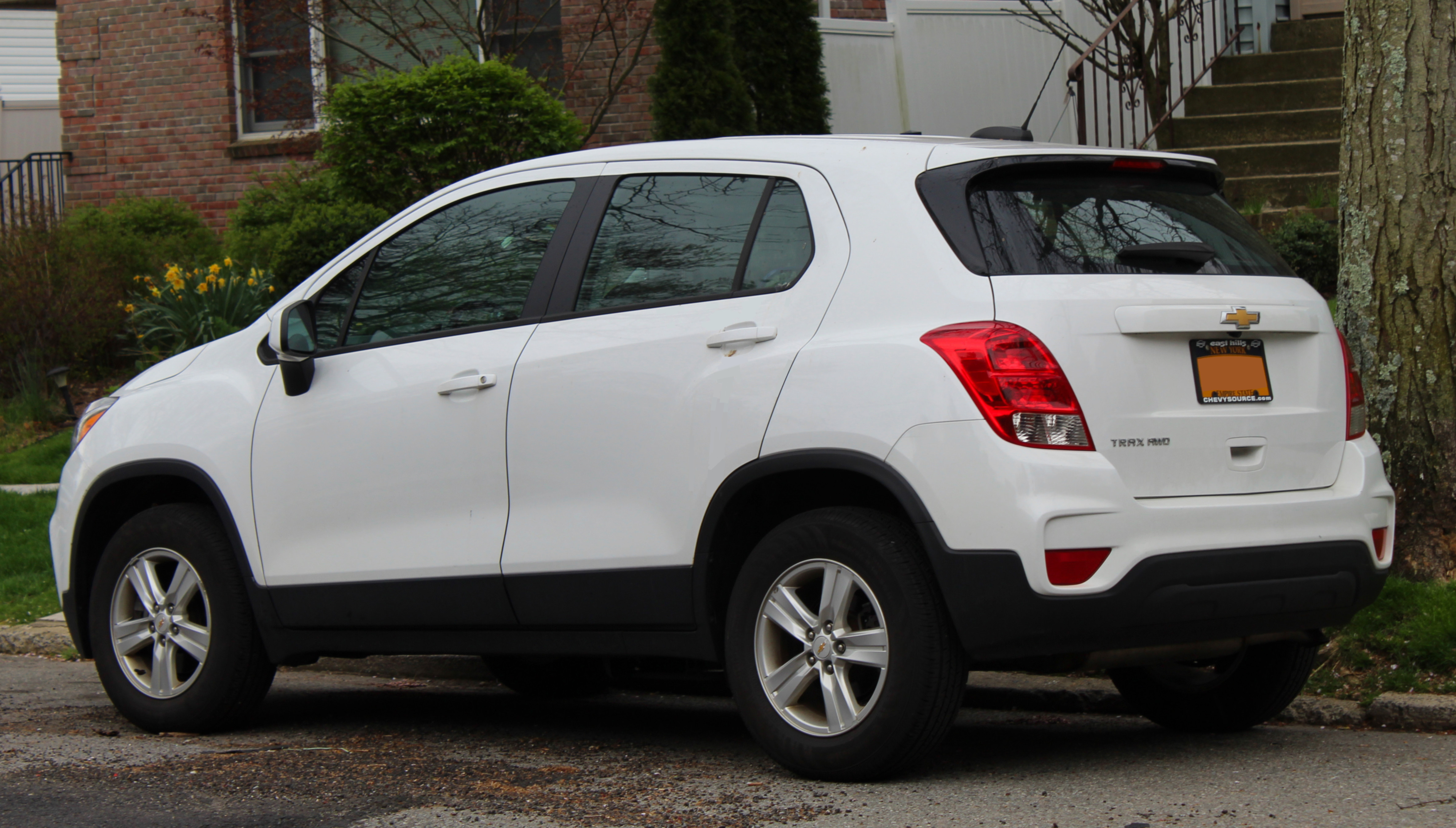 A 2018 Chevrolet Trax LT photographed in Queens, New York, USA